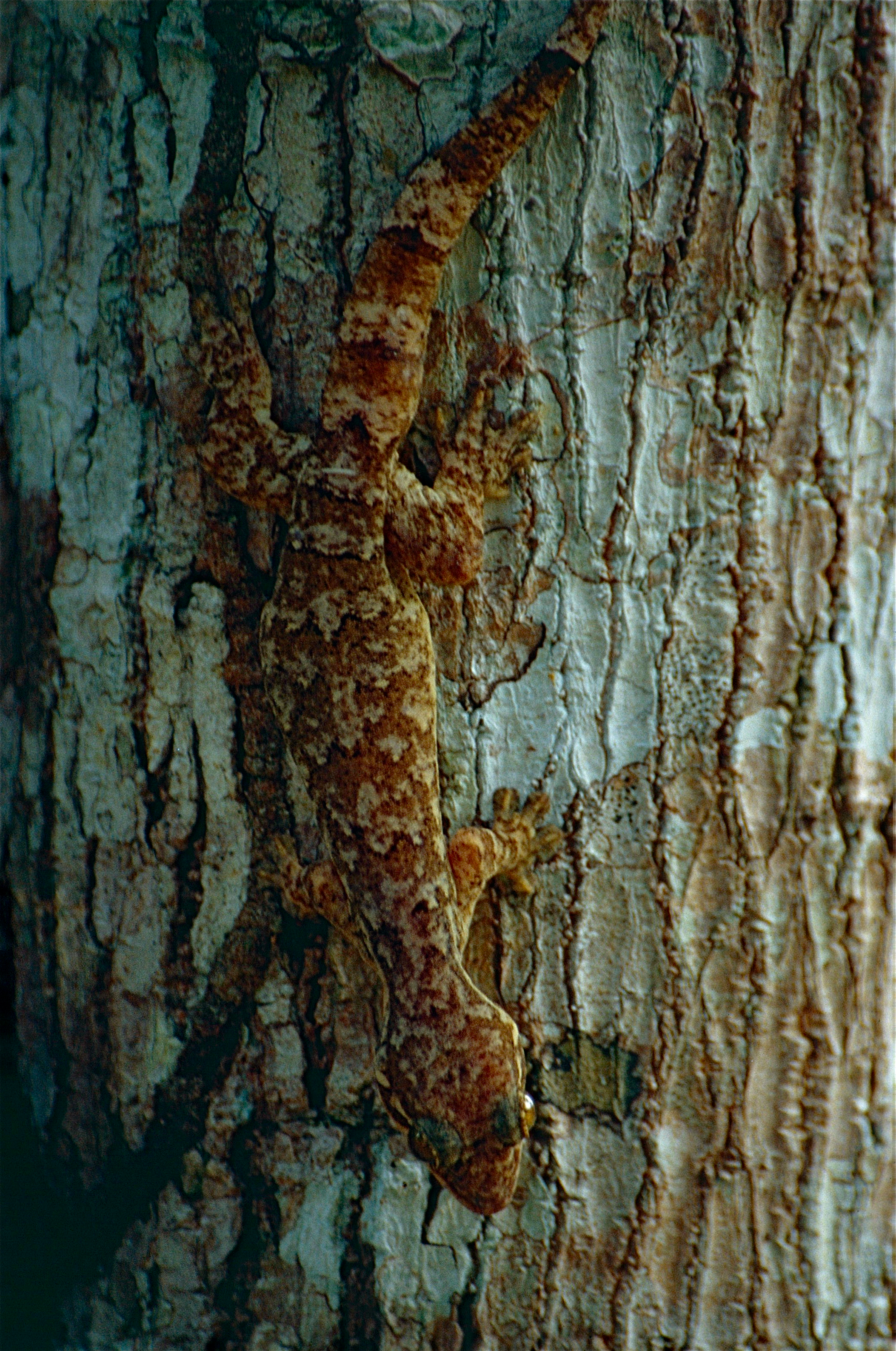 Saül, Guyane, FRANCE Scanned Slide from 2000